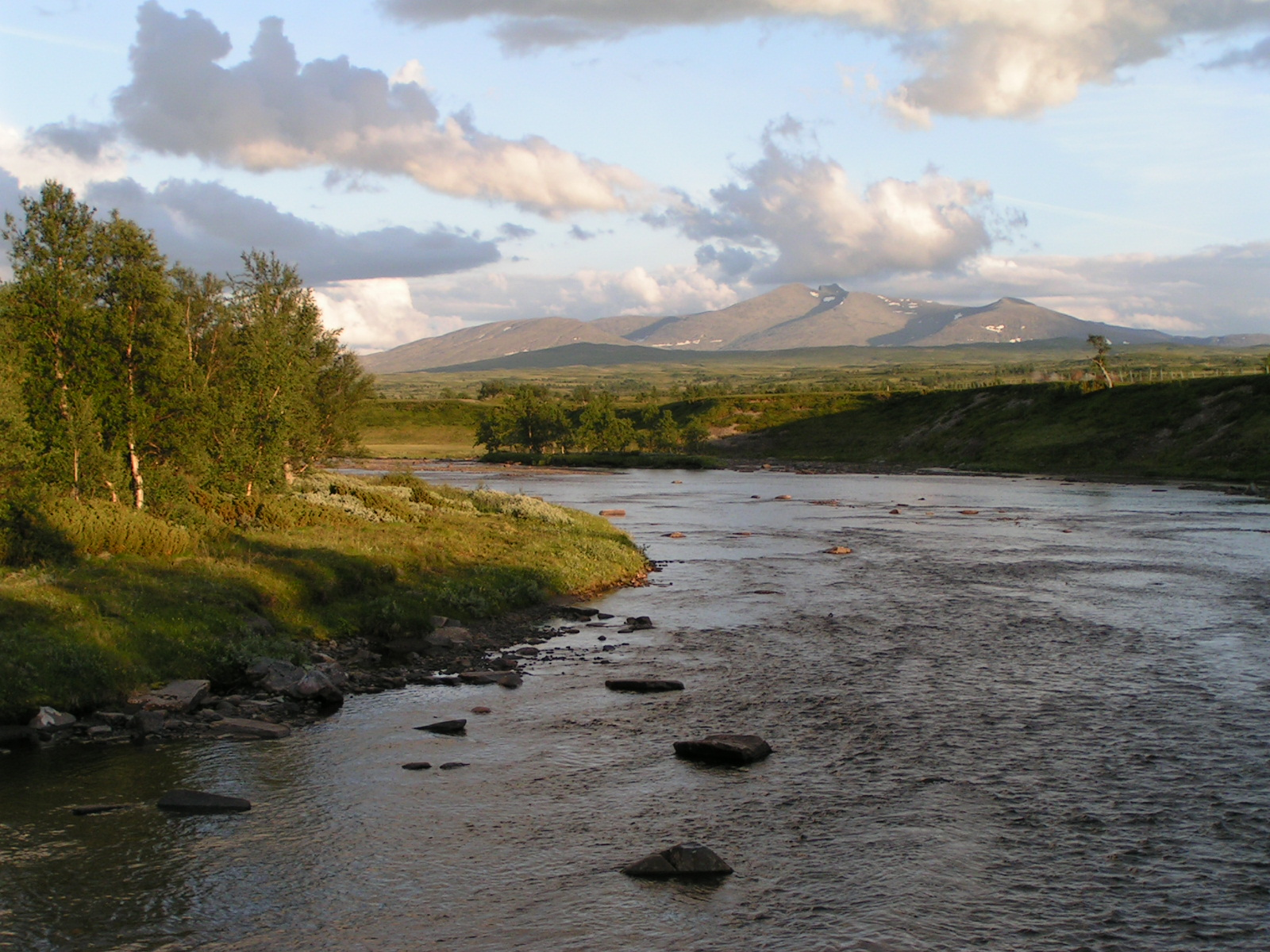 The Enan (or Enaälven) and in the background the Sylans.